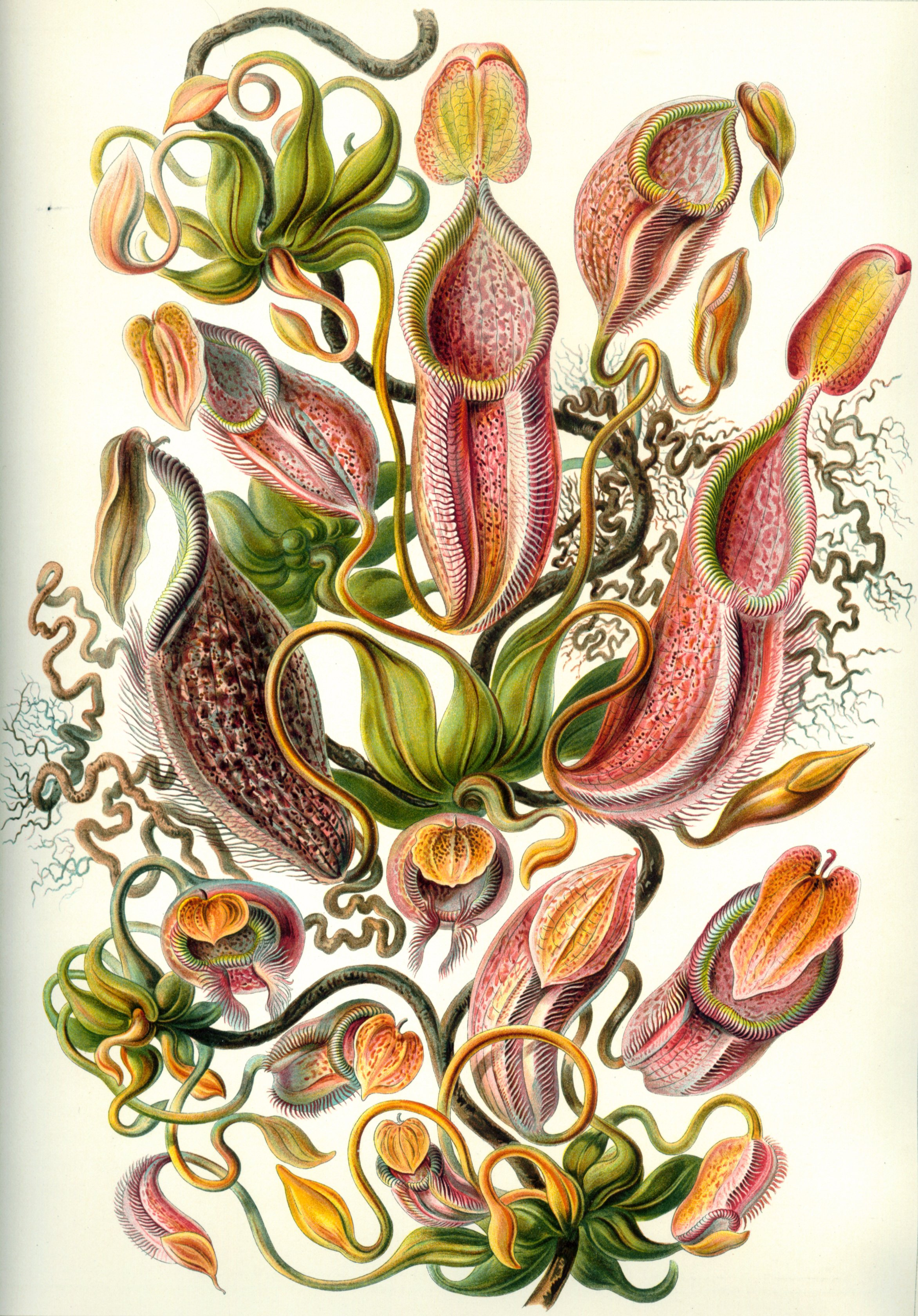 Nepenthes melamphora (Reinward) = Nepenthes gymnamphora Reinw. ex Nees